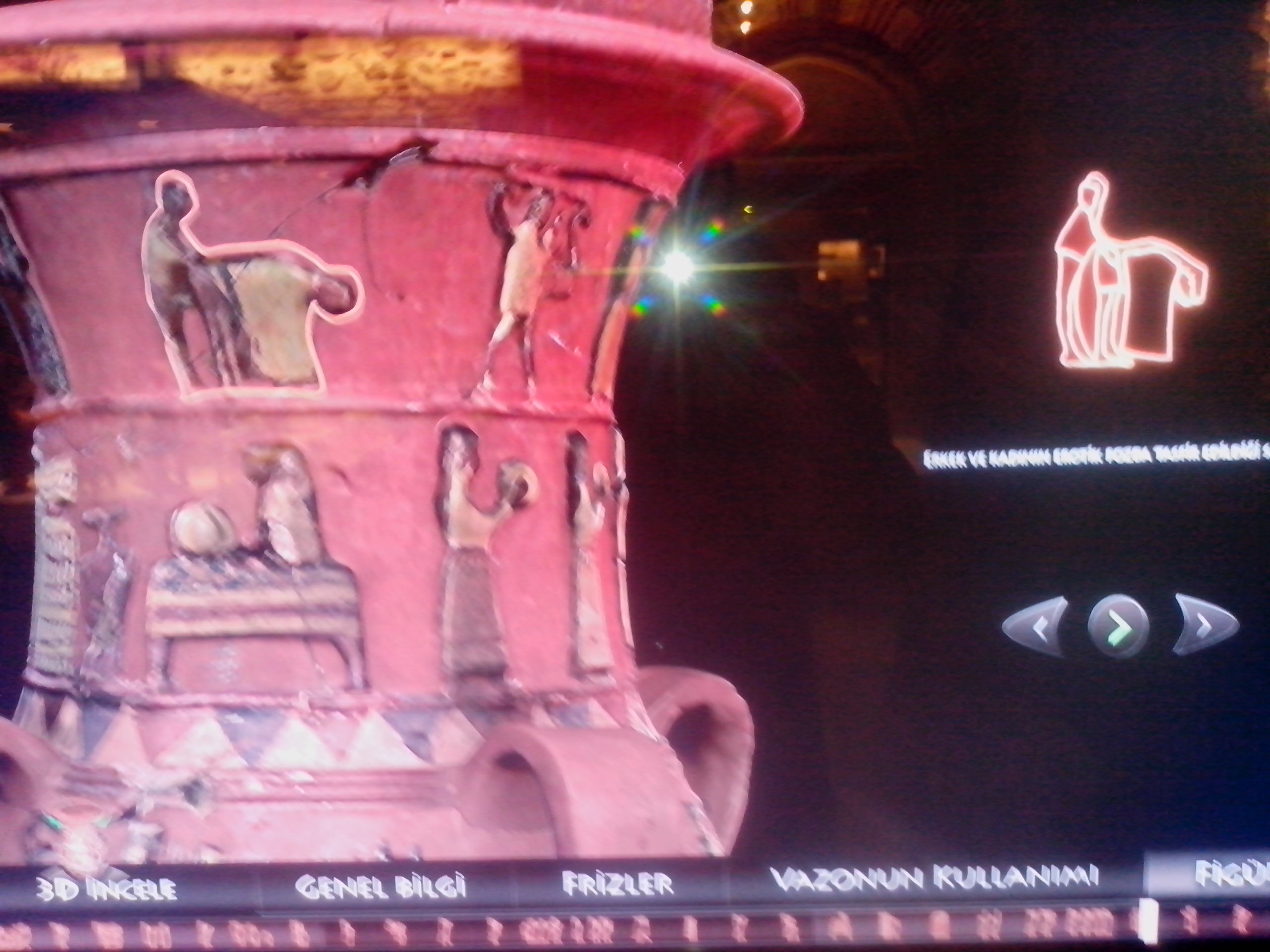 Ancient art